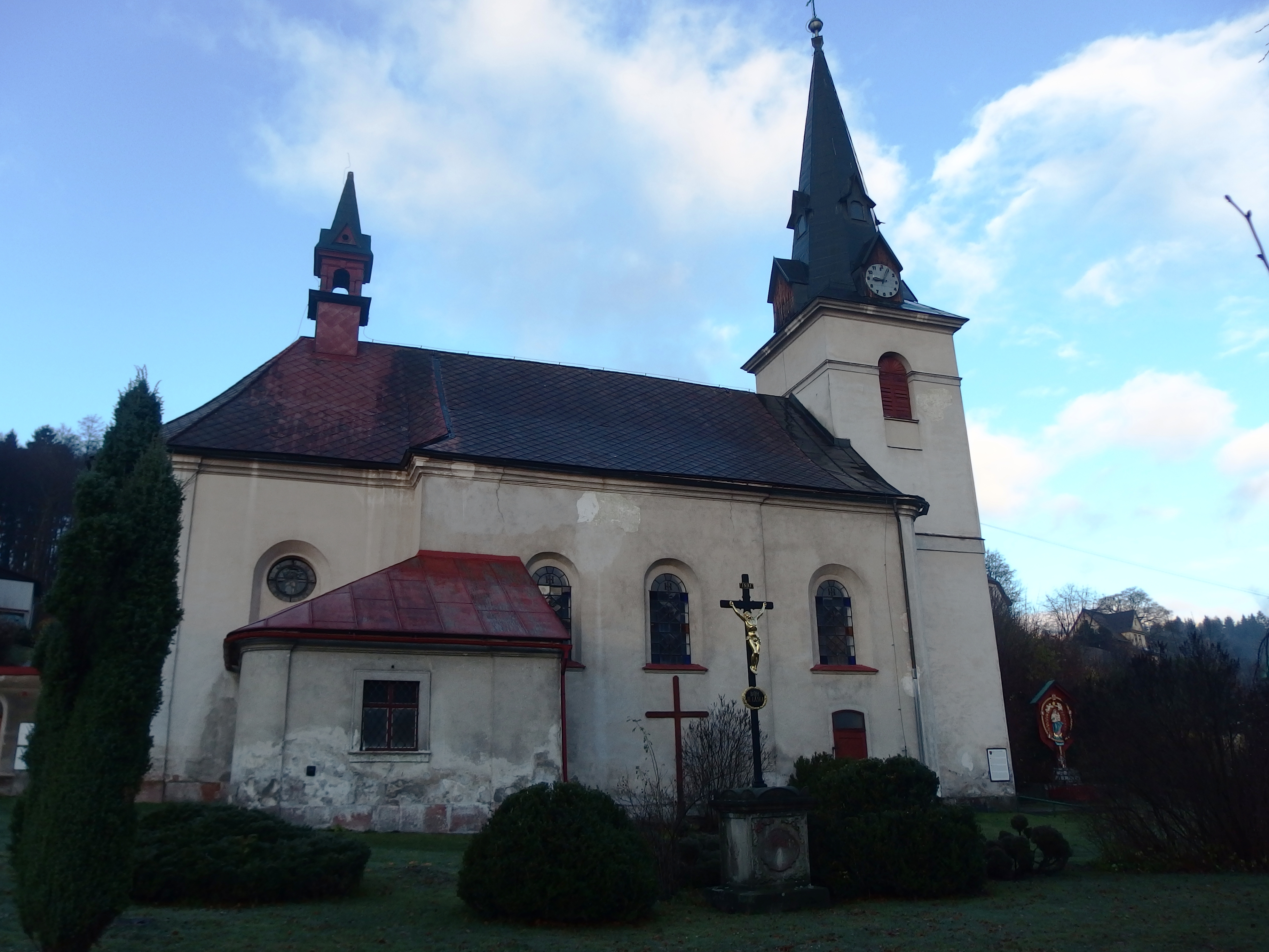 Svoboda nad Úpou, Trutnov District, Czech Republic. Church of Saint John of Nepomuk.